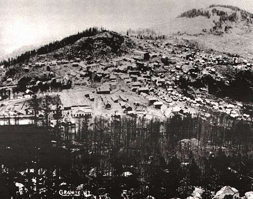 Granite, Montana, circa 1895